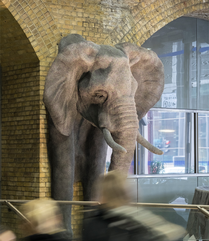 This sculpture is installed at Waterloo Station, London